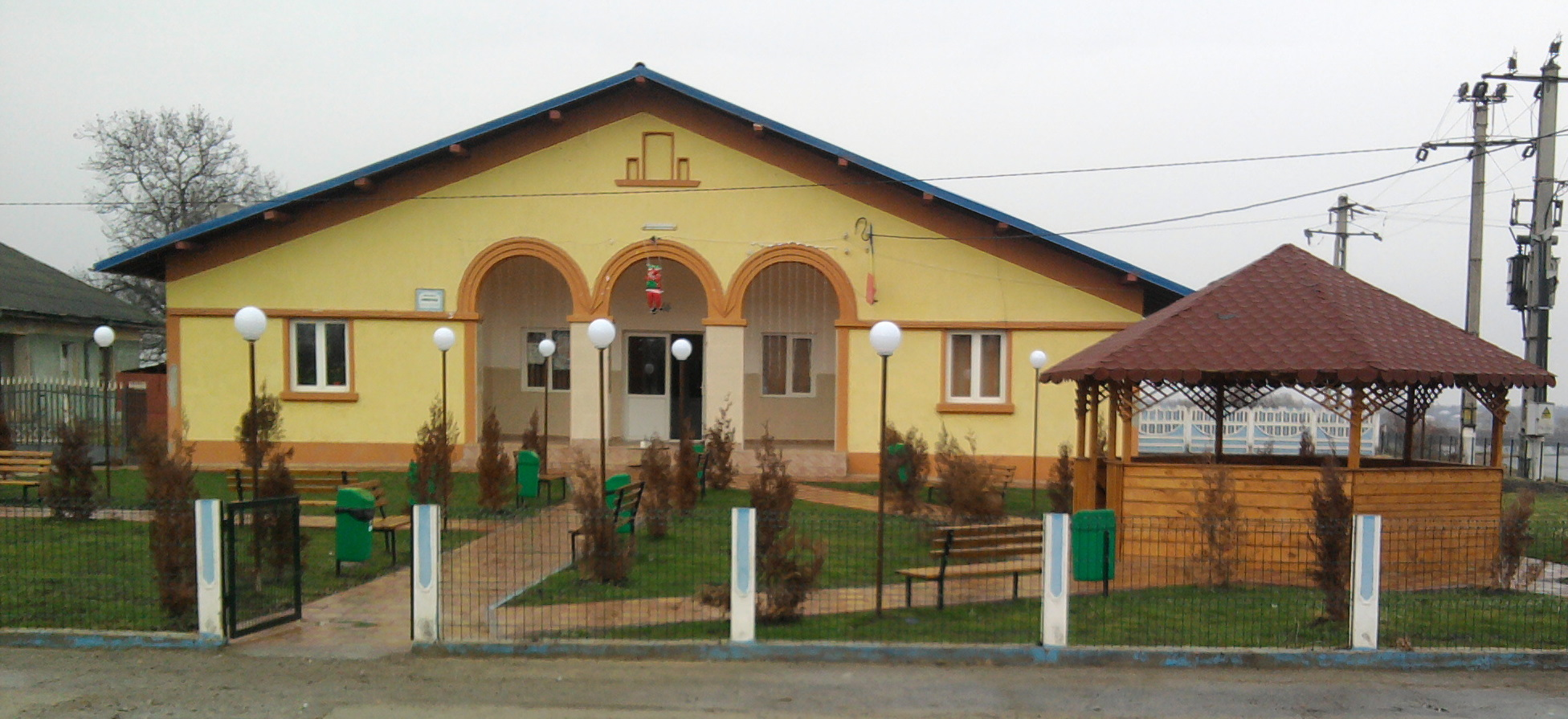 camin